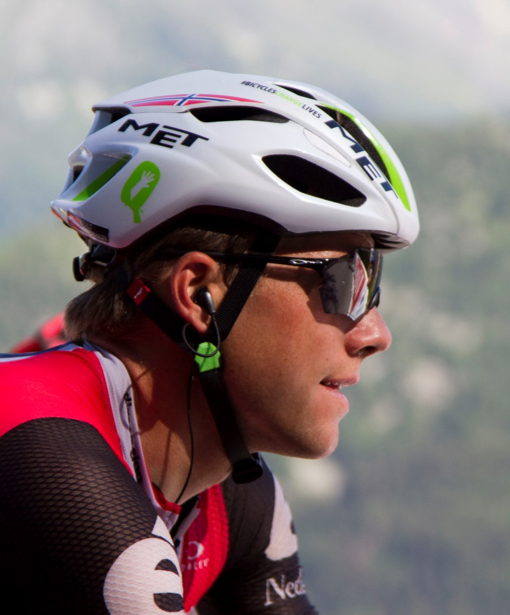 344 boasson hagen